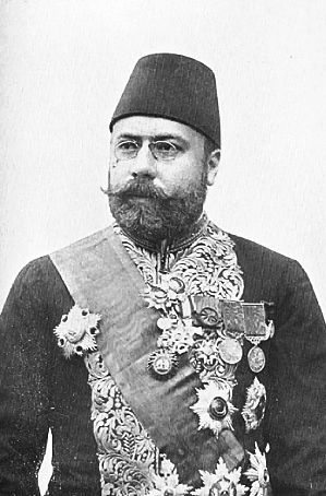 Ibrahim Hakki Pasha (1863-1918) Ottoman Prime Minister (1910-1911)